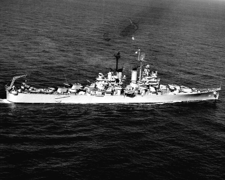 USS Manchester (CL-83) photographed from a USS Philippine Sea plane while operating in the Mediterranean Sea, 9 March 1948. Note that the ship still retained one aircraft catapult at this time.